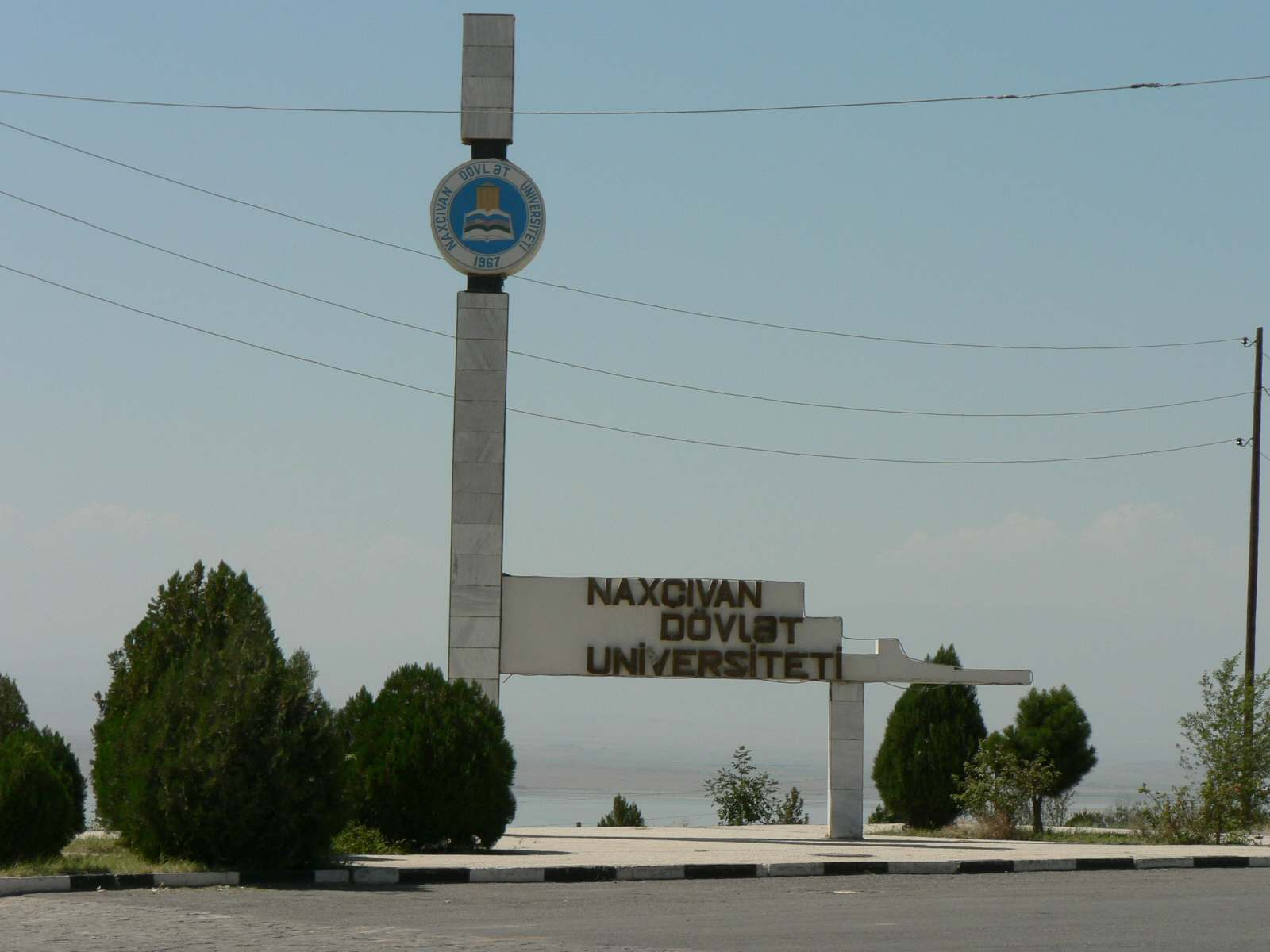 Nakhchivan State University Building